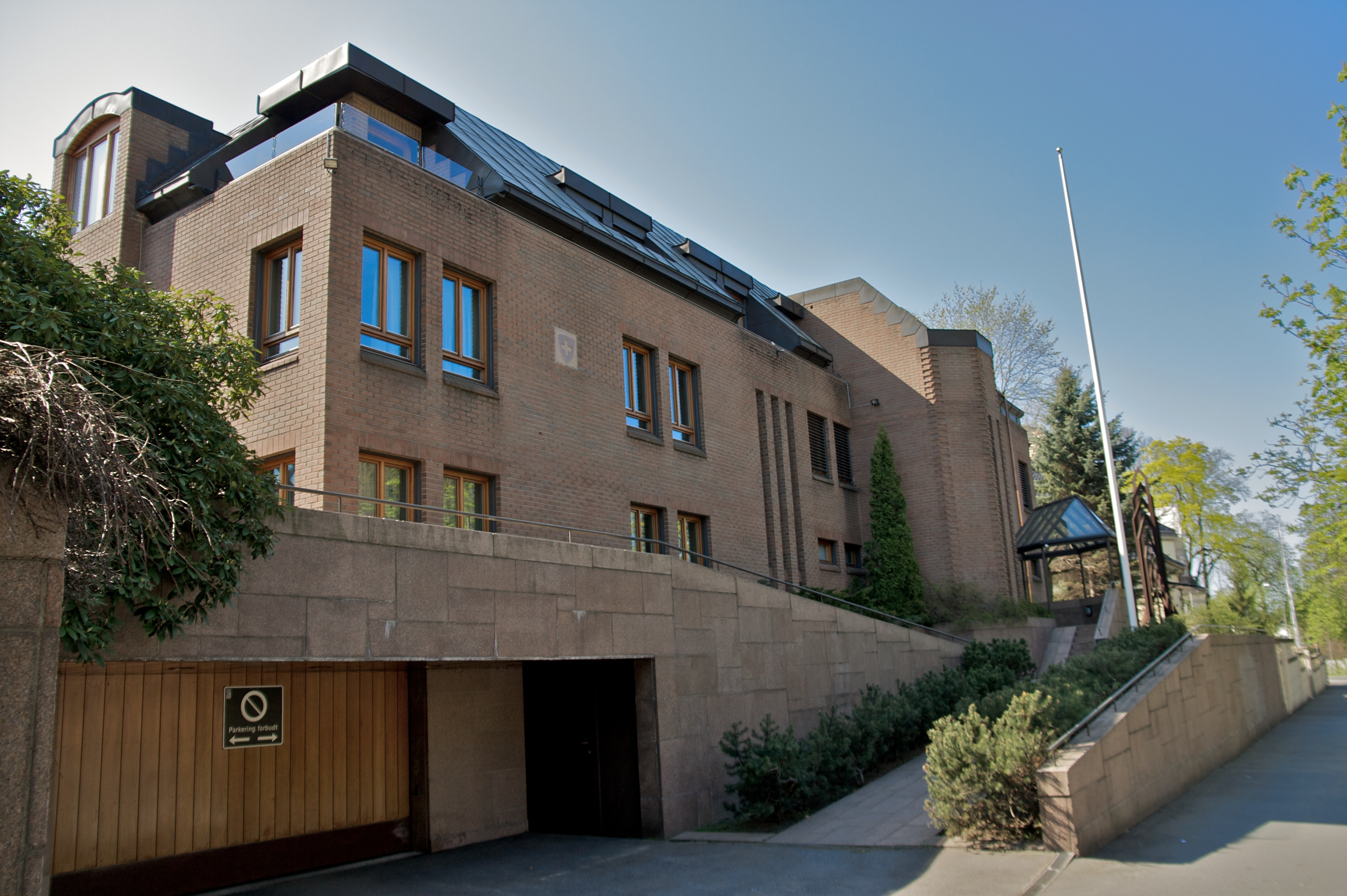 Previously the Swiss embassy, Oslo, Norway.